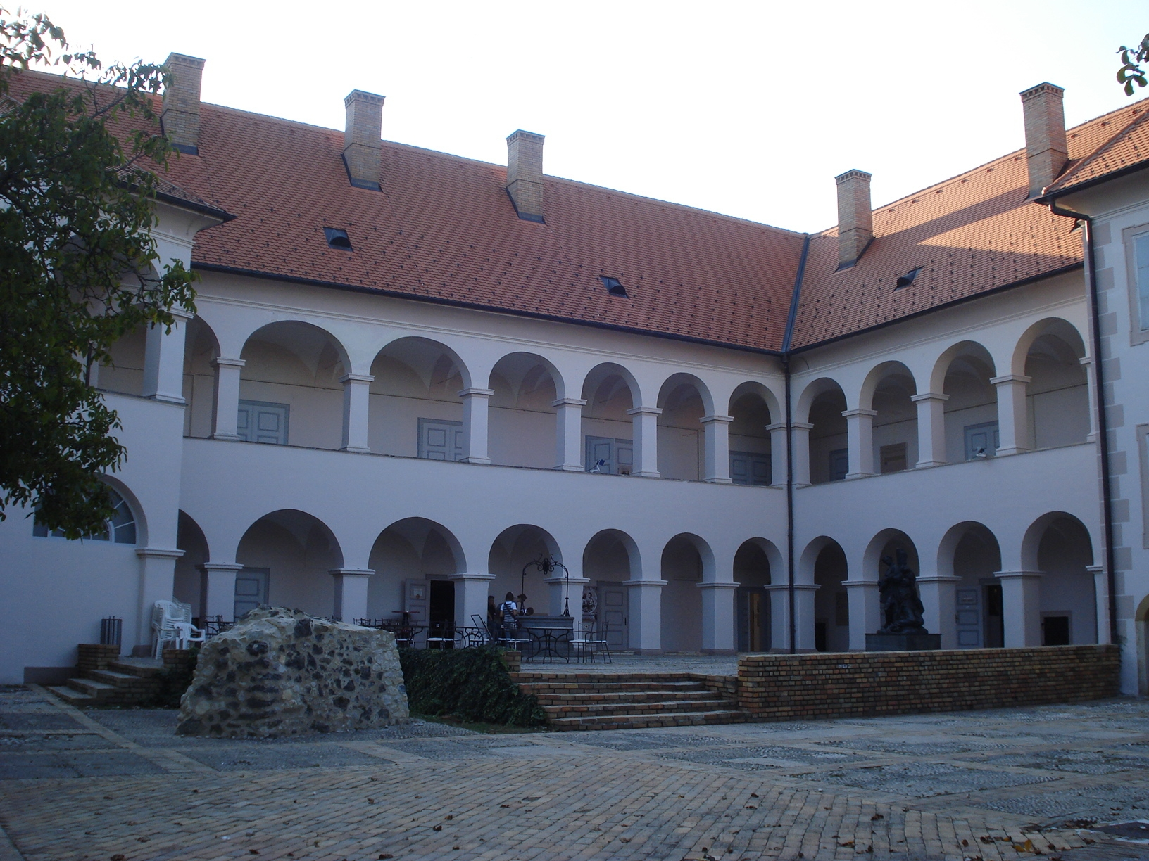 Oršić Castle in Gornja Stubica, Croatia - backyard view